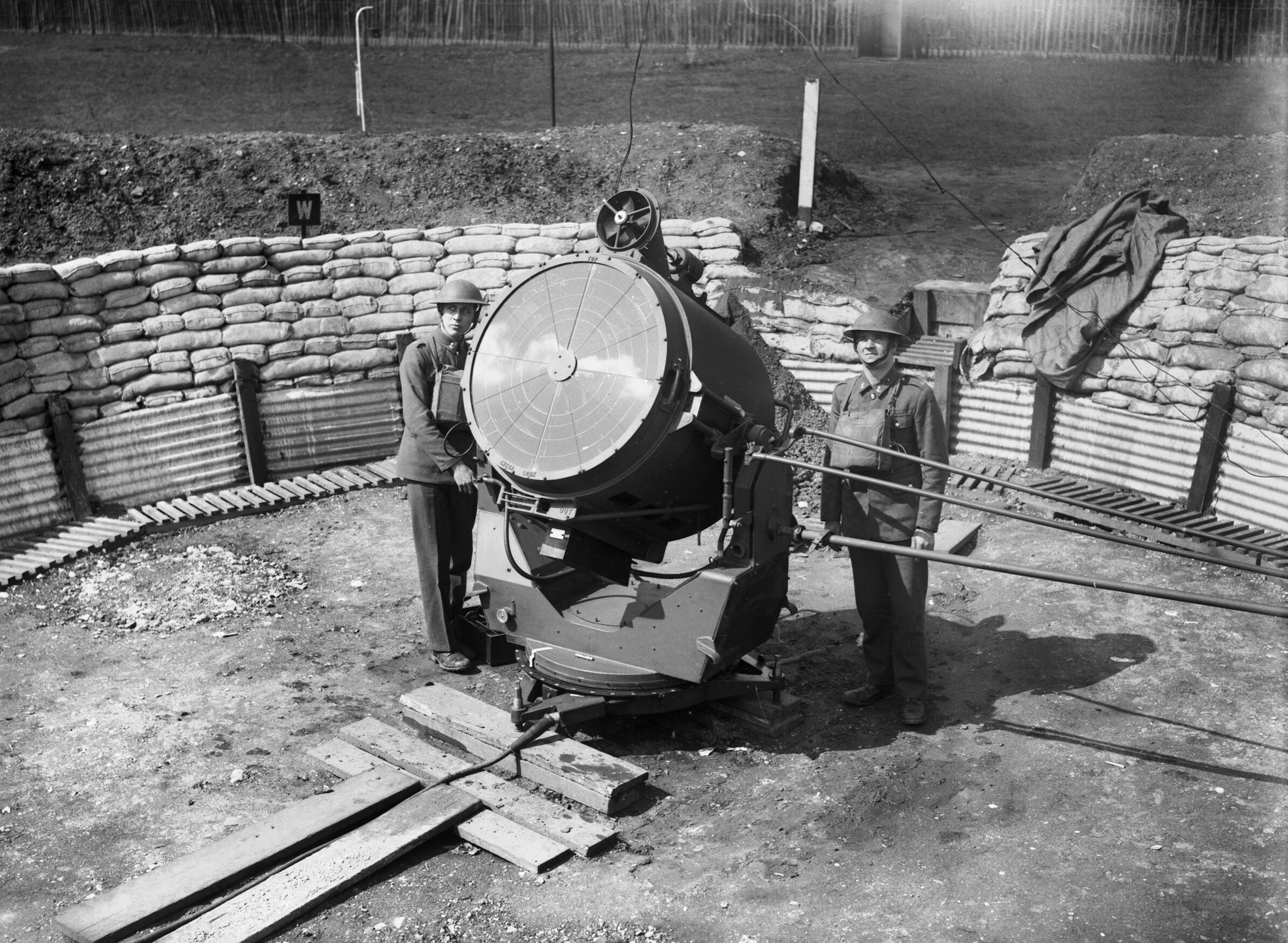 An anti-aircraft searchlight and crew at the Royal Hospital at Chelsea in London, 17 April 1940. Anti-aircraft searchlight and crew at the Royal Hospital at Chelsea in London, 17 April 1940. This is the 90mm model. The tube at the top of the light is a fan that cools the interior.